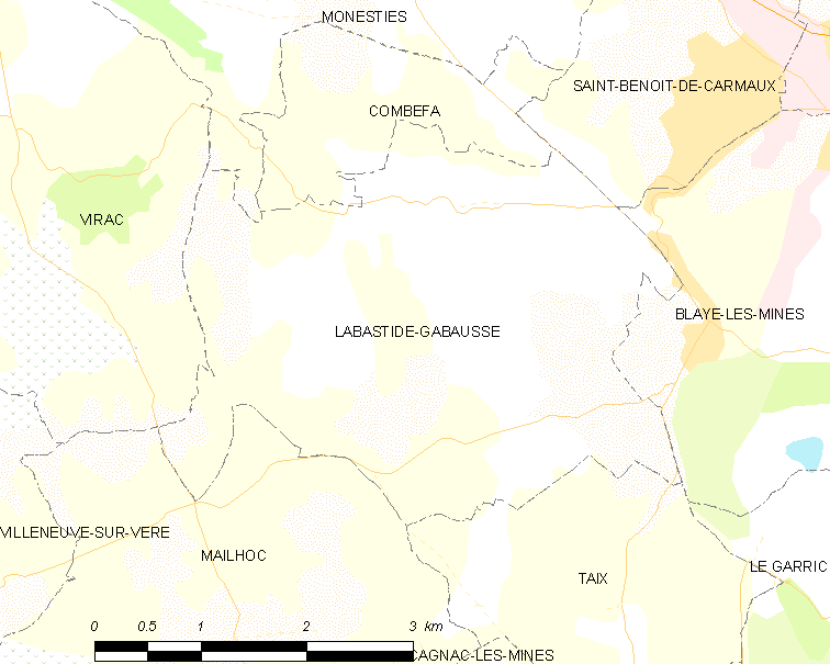 Map of French municipality Labastide-Gabausse